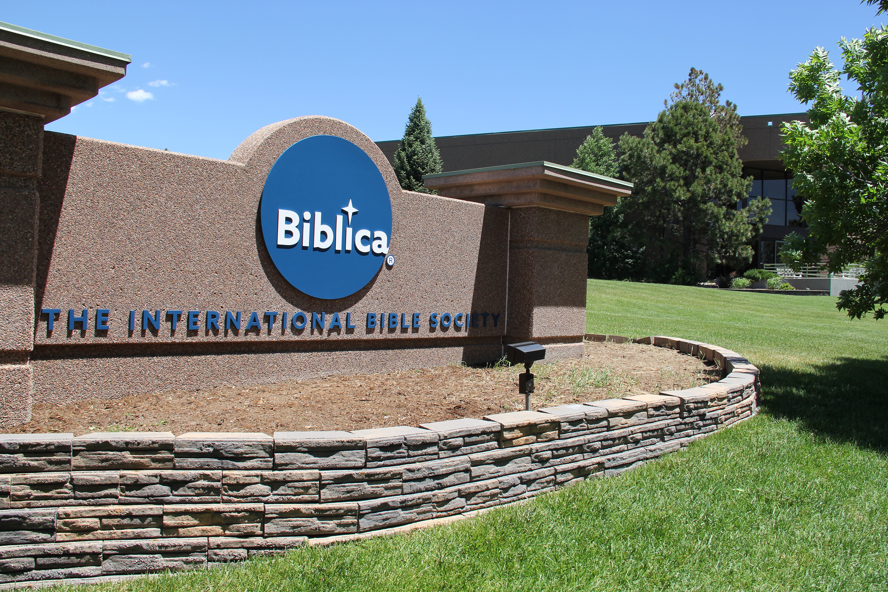 Biblica Headquarters as of 2016.